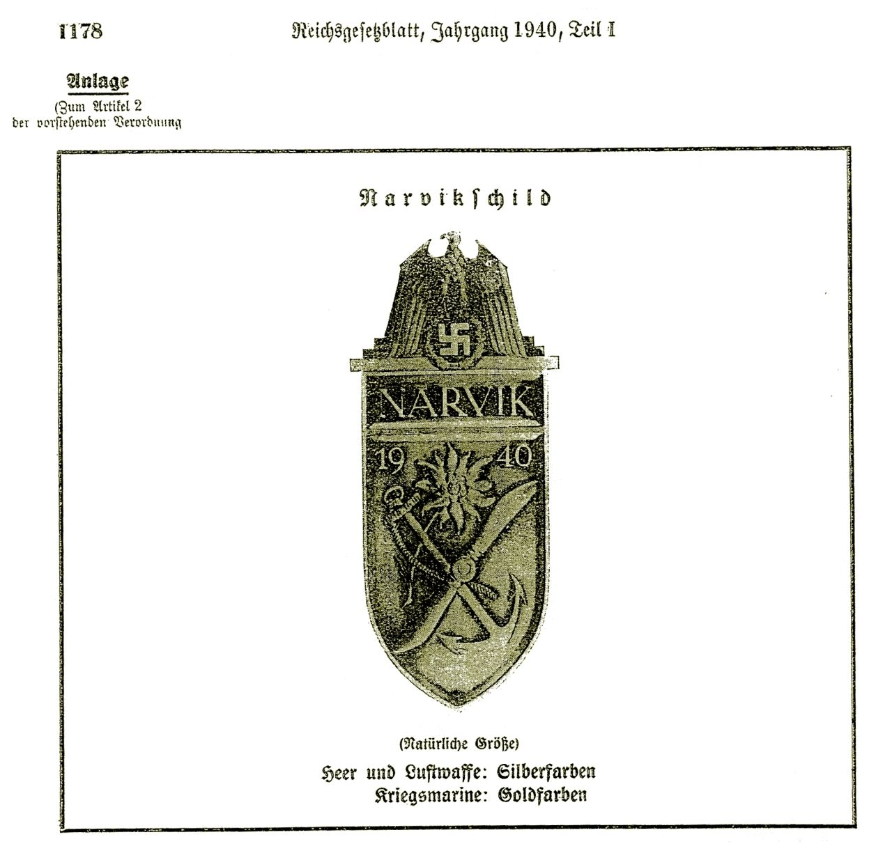 Decree issuing Narvik Shield w/ photo